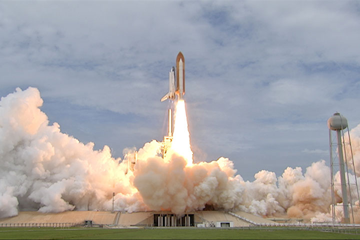 Space shuttle Atlantis STS-135 lifts off the launch pad for the final space shuttle mission.